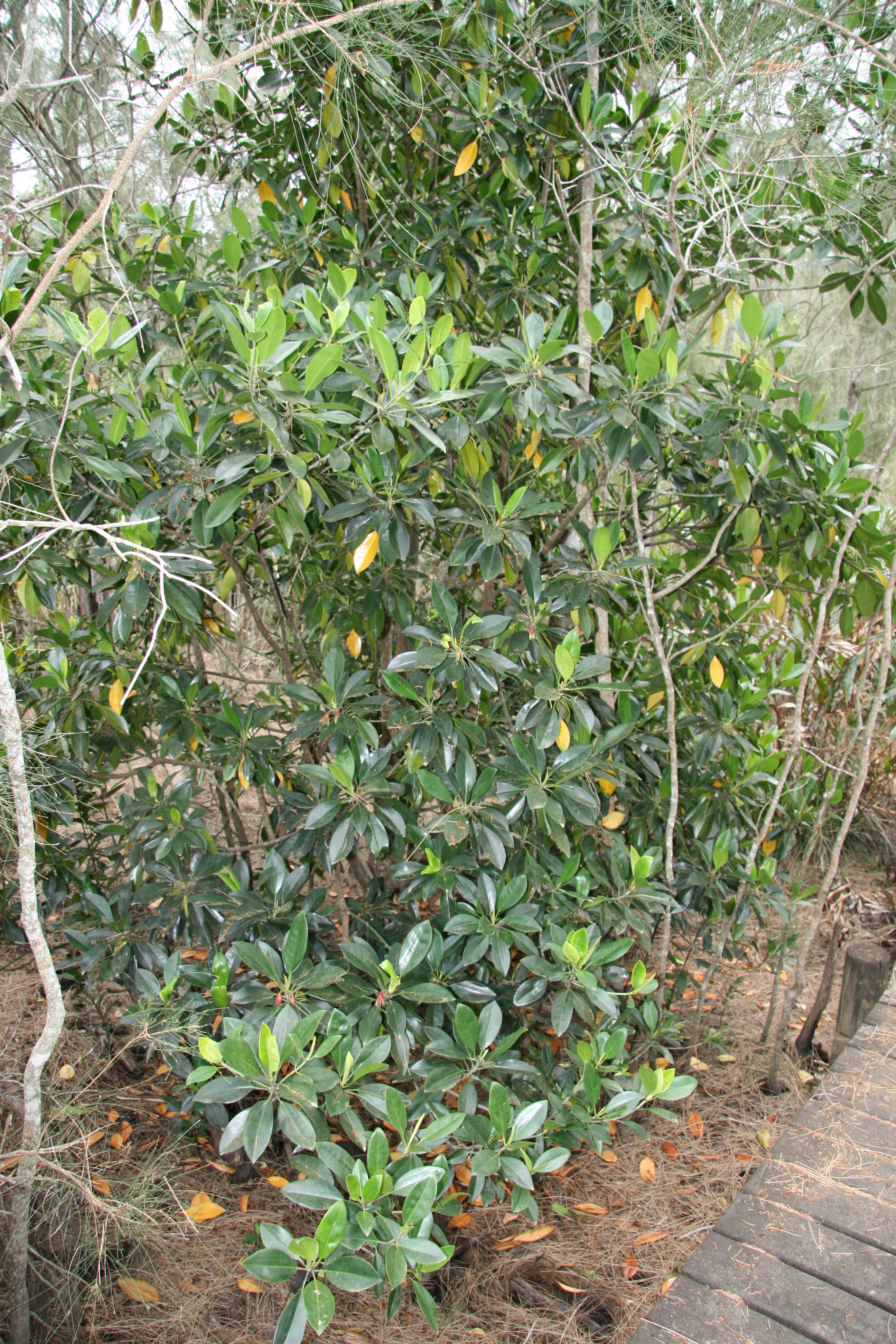 Bruguiera gymnorrhiza habit, mangrove boardwalk, Bli Bli, Sunshine Coast, Qld